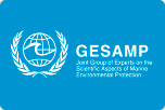 GESAMP